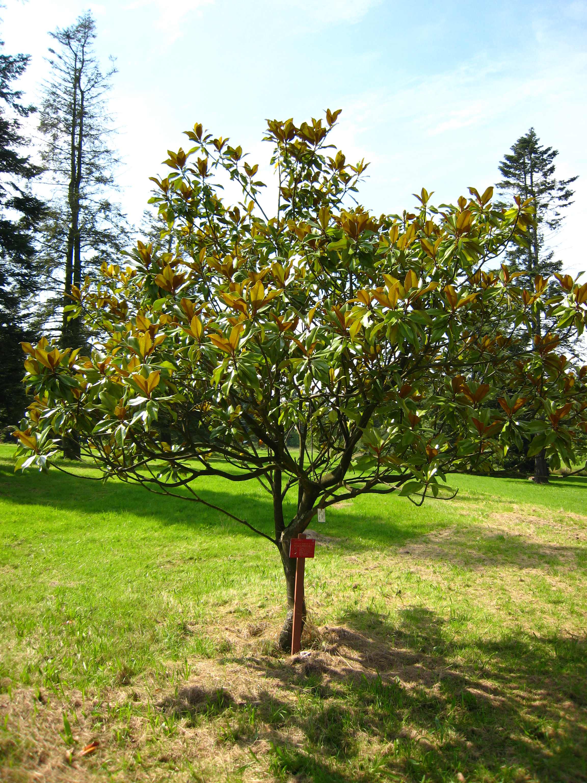 Magnolia grandiflora in the Arboretum de Chèvreloup in Rocquencourt